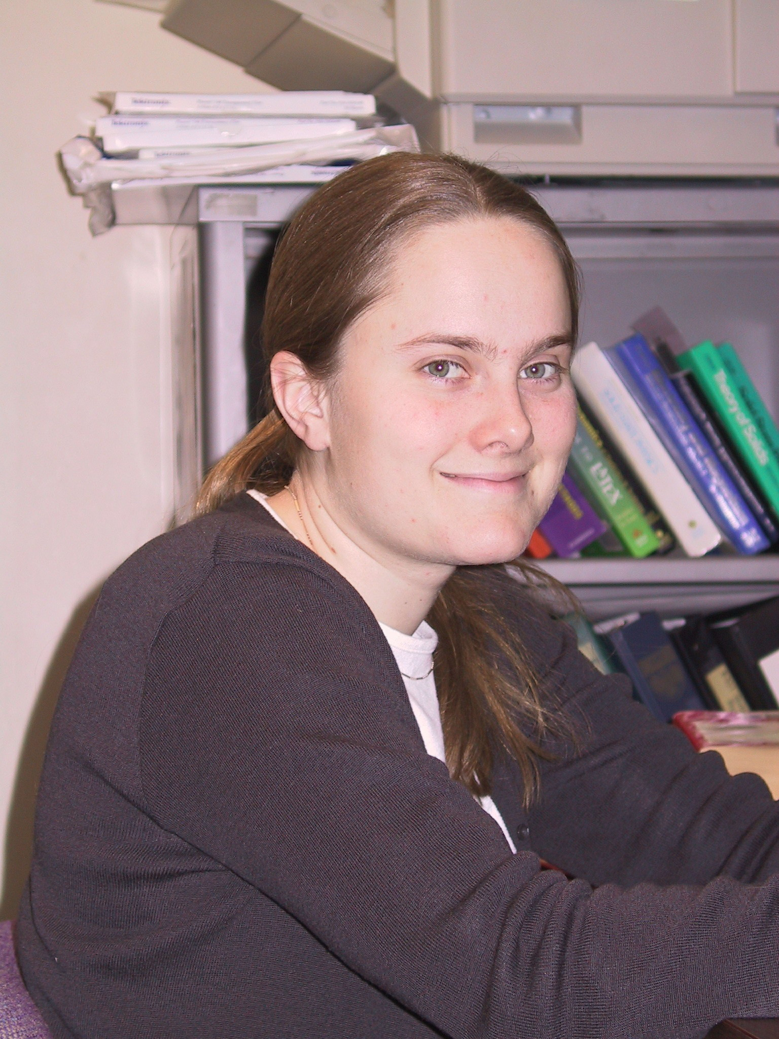 Michelle Povinelli, a groupmate in the Joannopoulos group (and then my officemate, now a prof at USC), in her building-12 office